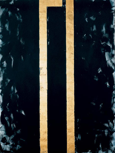 painting by Ryszard Wasko dedicated to Barnett Newman (1988)